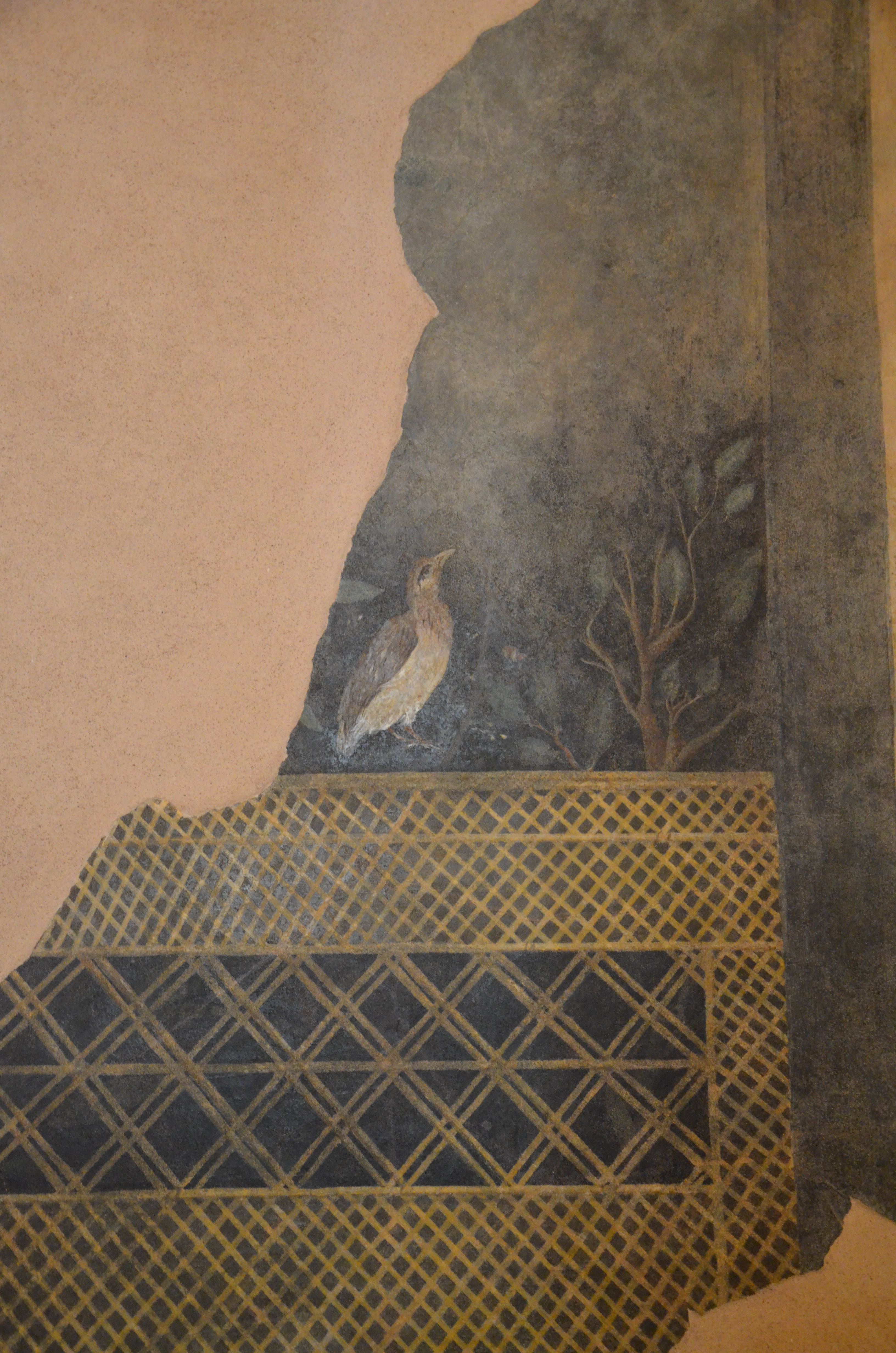 Archaeological Museum of Formia, Italy